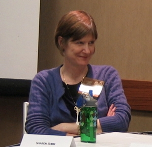 Photo of Sharon Shinn, taken by Scott Thomas at Capricon 29 in Wheeling, IL, on 20th February 2009.